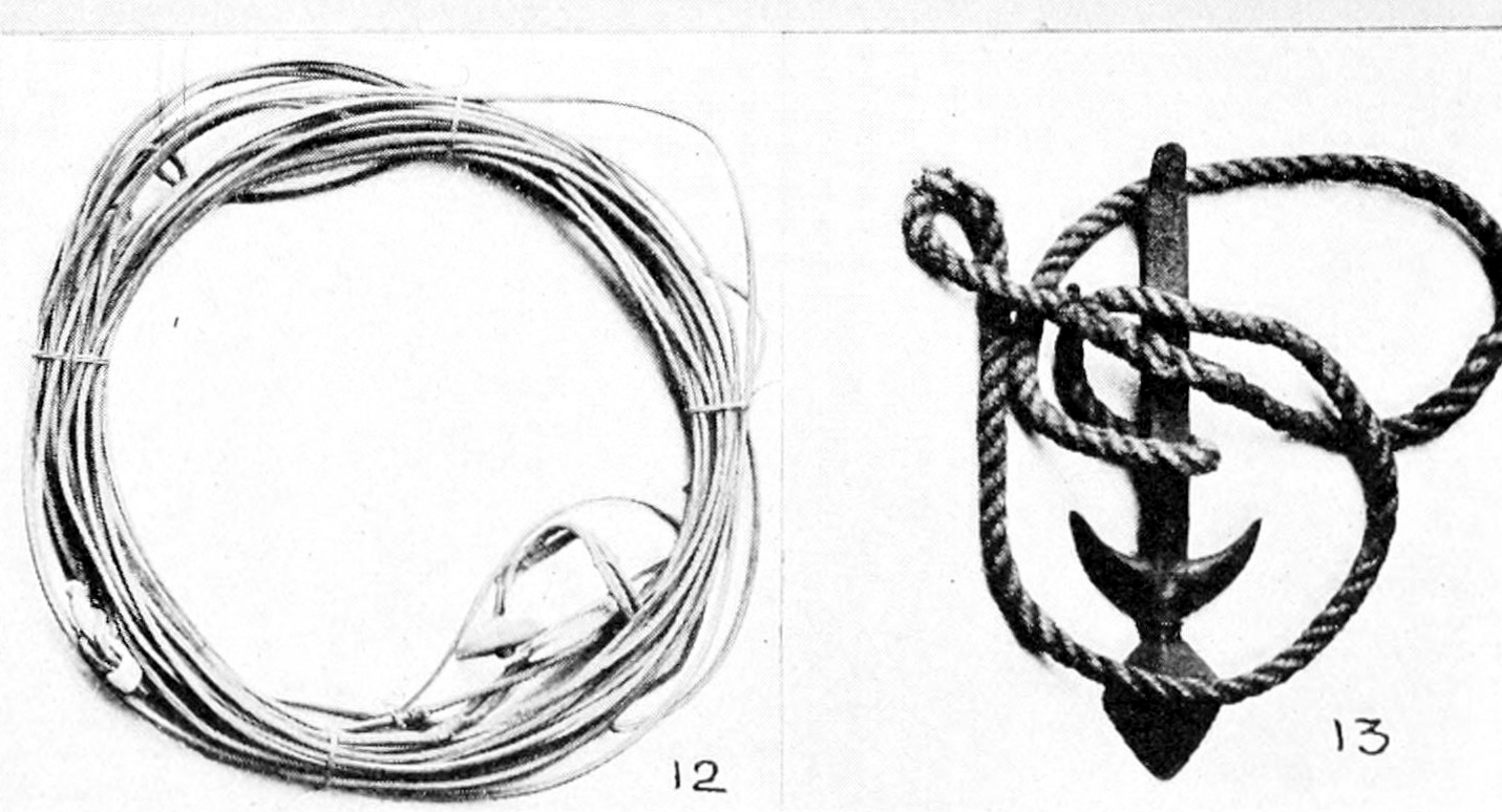 Plate 25. No. 12. Seal harpoon with toggle head and foreshaft. Line of seal hide; bone detacher 72,397 No. 13. Toggle harpoon head of iron for swordfish, with hastate point and lateral flukes or barbs; line hole across the middle; shaft works in in socket in the butt 102,536